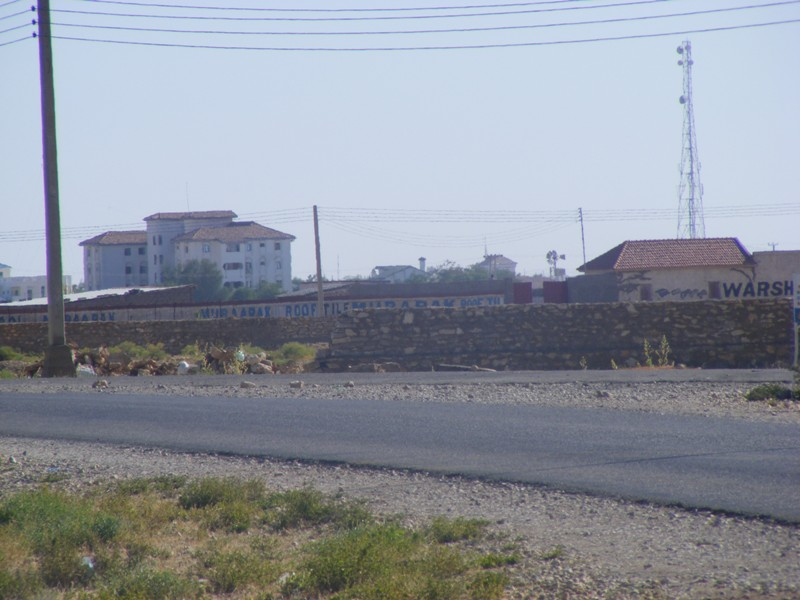 A residential area in Garowe, the administrative capital of the autonomous Puntland region in northeastern Somalia.